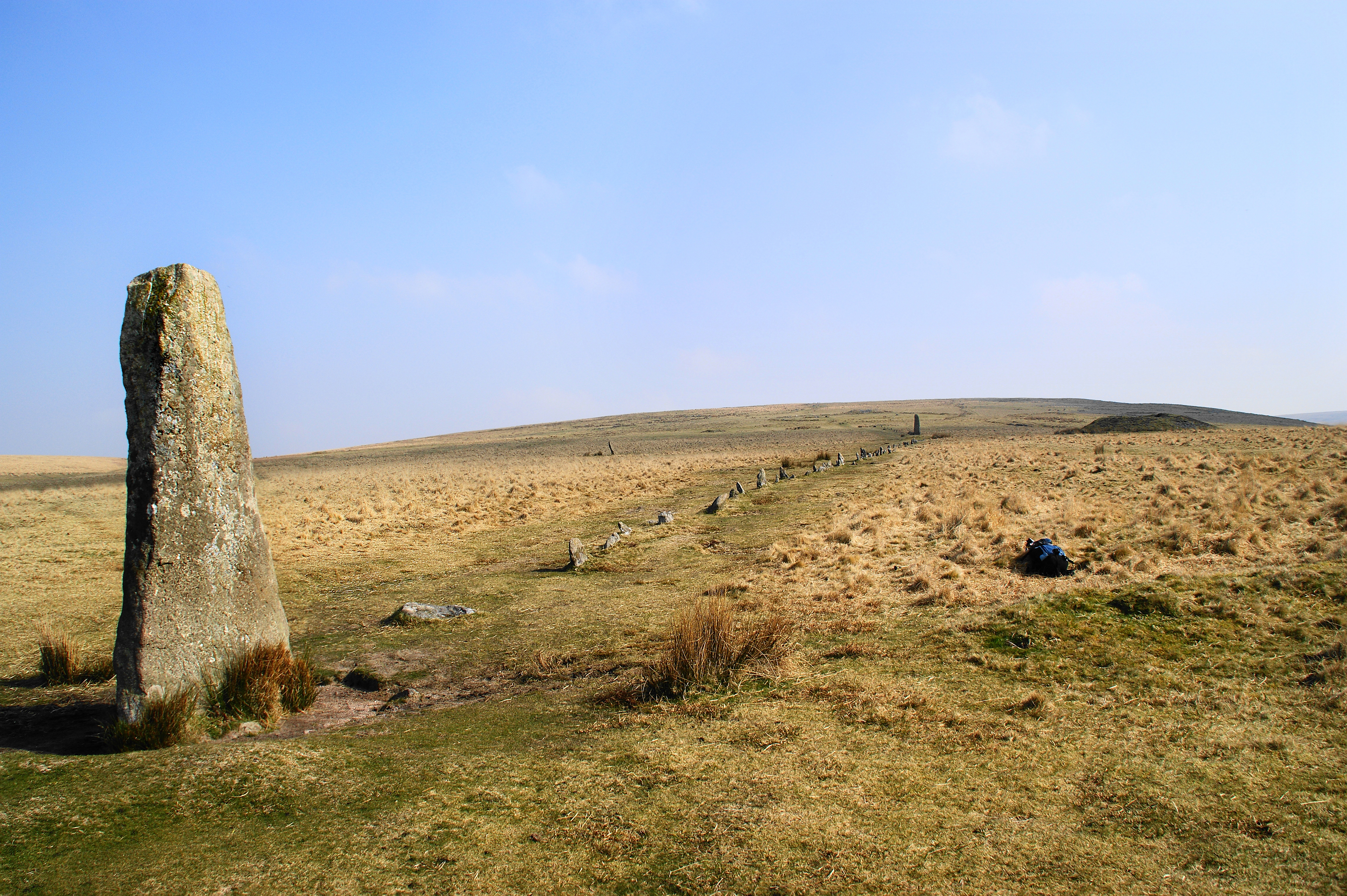 View looking north at Drizzlecombe on Dartmoor in South Devon, UK. In the foreground there is a menhir at the end of a stone row which leads to a kistvaen. On the right is Giants Basin - a tumuli.